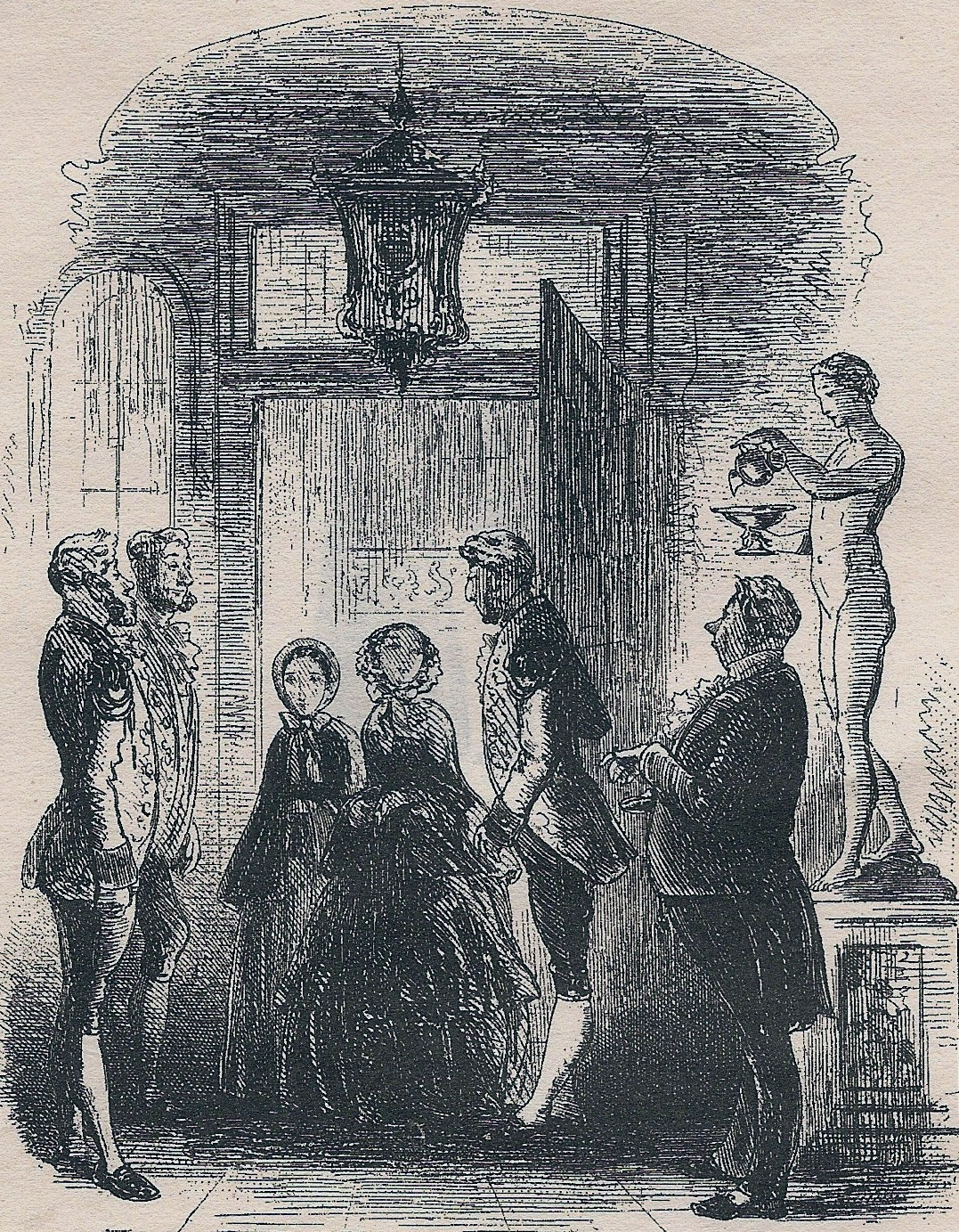 Little Dorrit, Fanny and Little Dorrit call on Mrs Merdle, by Phiz